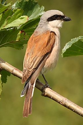 male Red-backed shrike